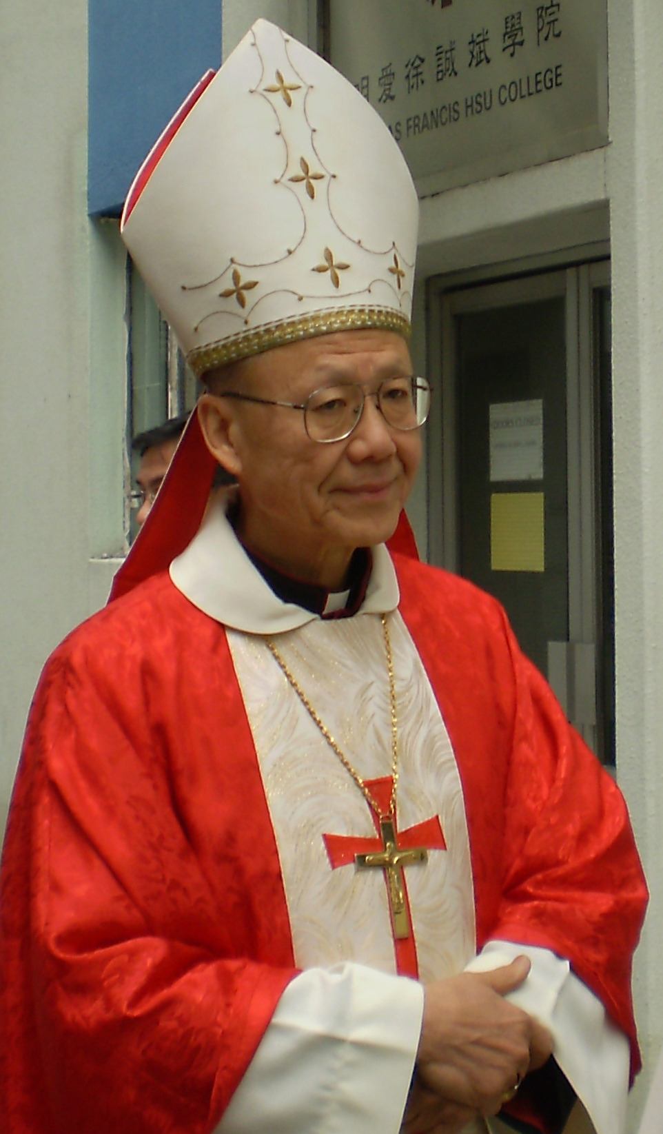 Bishop John Tong Hon